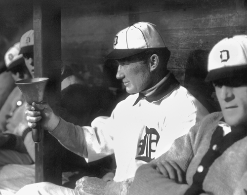 Hughie Jennings rings bell in Detroit Tigers dugout, circa 1909